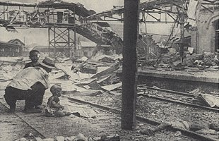 Monochrome photograph of the aftermath of Japanese bombing at Shanghai's South Station on August 28, 1937. A father settles his son and a smaller child on a railway platform near the children's dead mother.